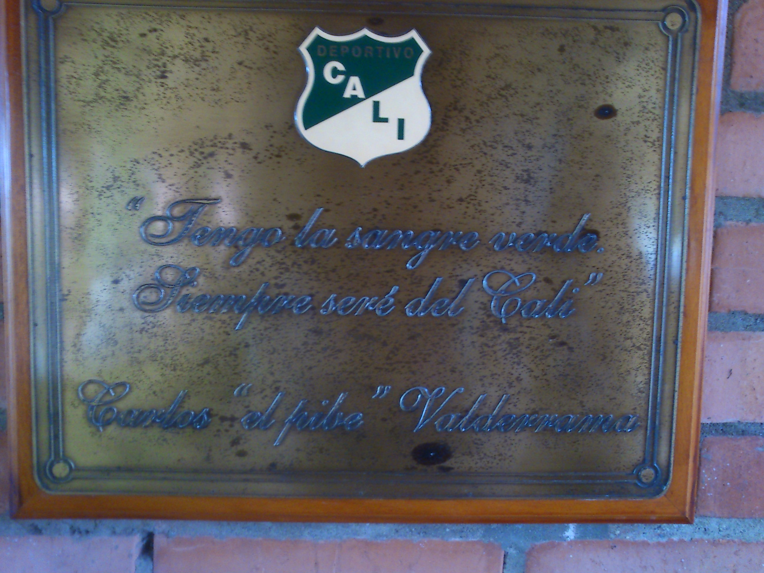 "I have green blood. I will always be of the Cali" - Carlos "El Pibe" Valderrama.